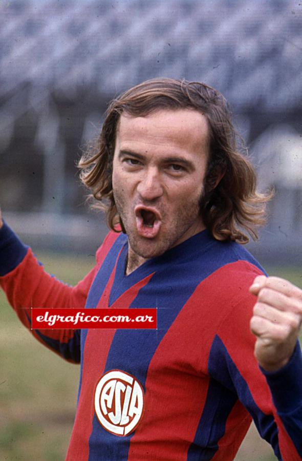 Argentine striker, Héctor Scotta, during a session photo